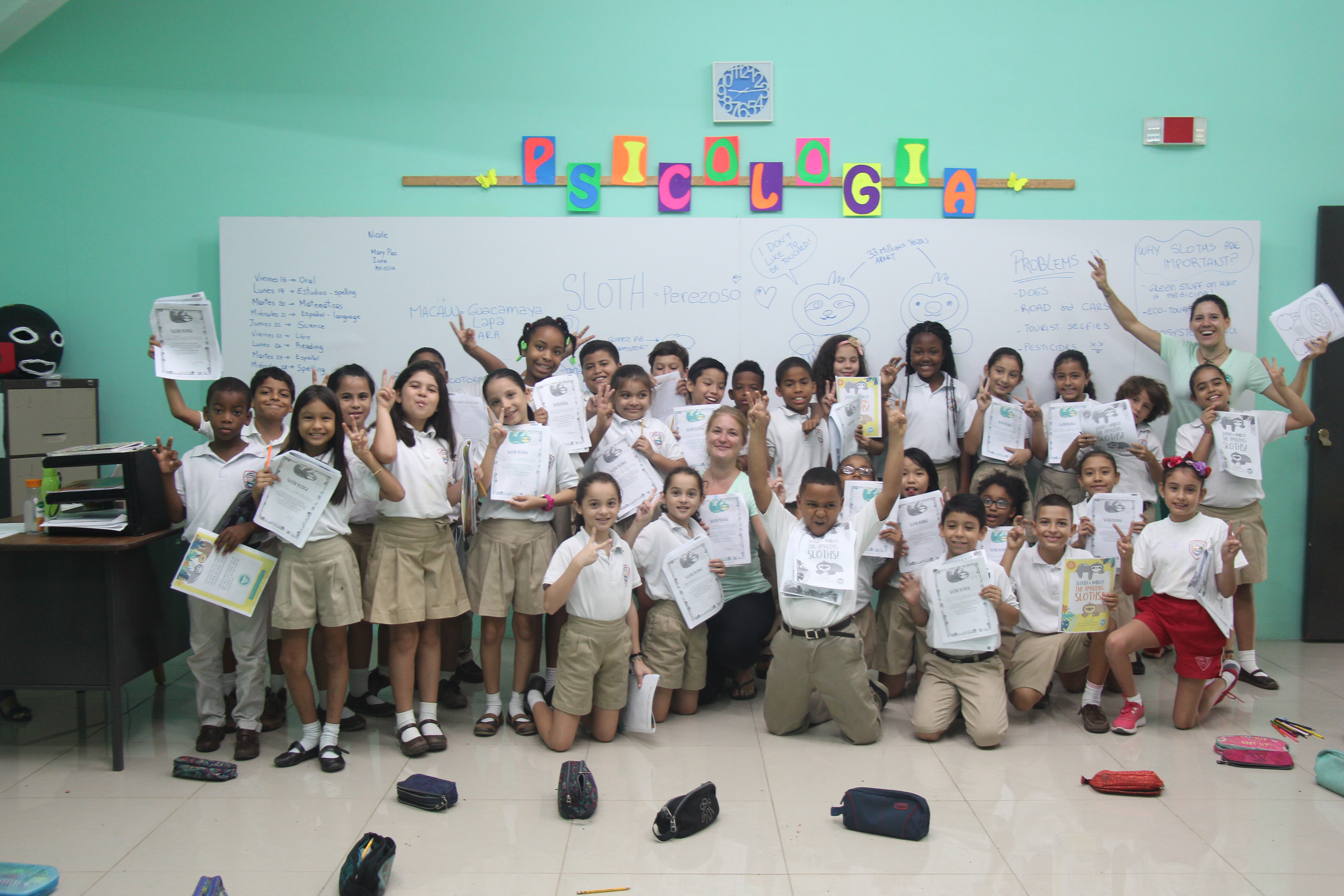 SloCo staff teaching about sloths in local schools